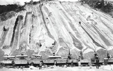 Morrison Hill Quarry, Hong Kong (ca 1922)